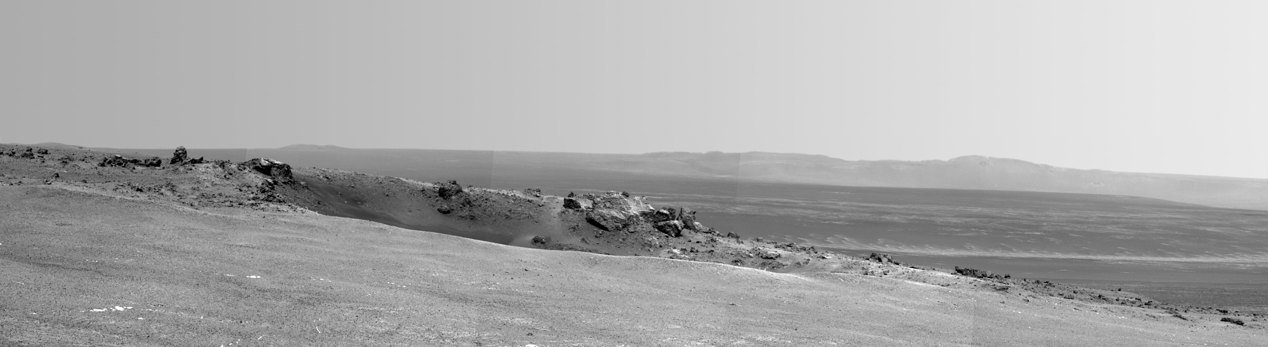 NASA's Mars Exploration Rover Opportunity arrived at the rim of Endeavour crater on Aug. 9, 2011, after a trek of more than 13 miles (21 kilometers) lasting nearly three years since departing the rover's previous major destination, Victoria crater, in August 2008. After arrival, Opportunity used its panoramic camera (Pancam) to record the images combined into this mosaic view. The view scene shows the "Spirit Point" area of the rim, including a small crater, "Odyssey" on the rim, and the interior of Endeavour beyond.